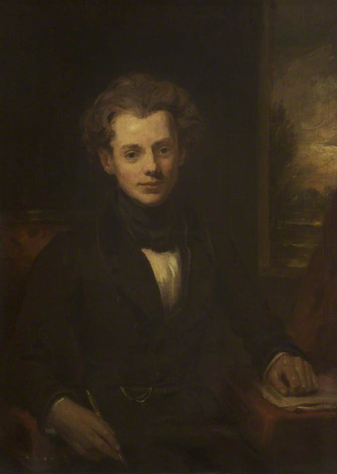 Photograph of a portrait of Henry Liverseege